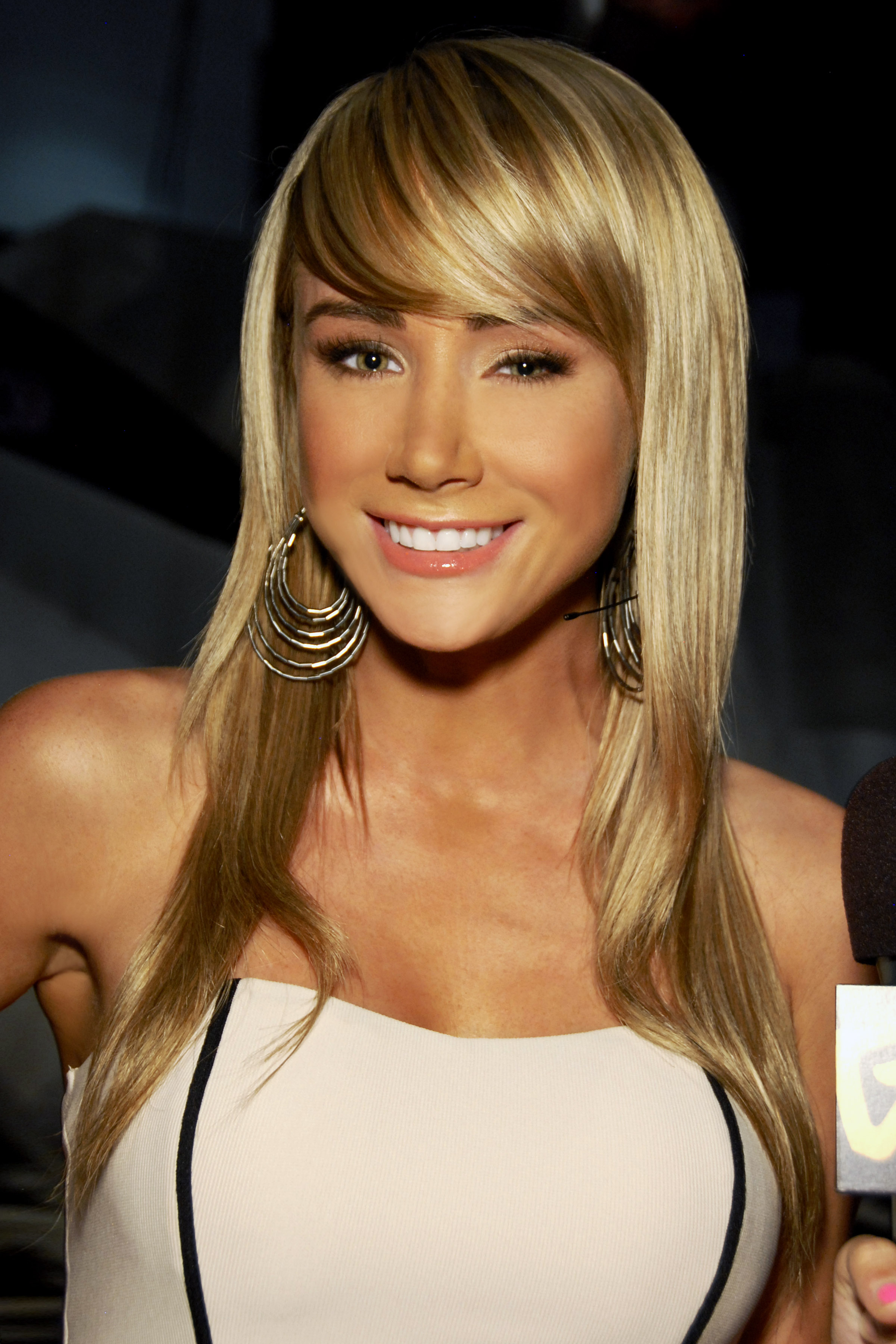 Sara Jean Underwood at the E3 Expo, Los Angeles, California on June 7, 2011 - Photo by Glenn Francis of